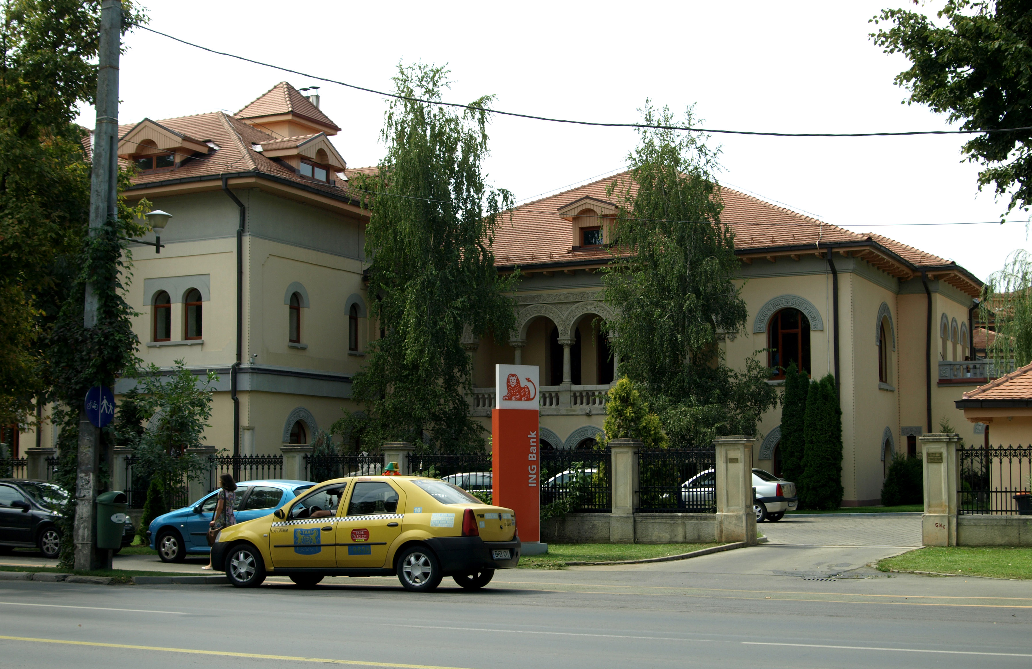 Former Kiseleff Royal Palace - Bucharest.